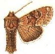 PLATE CXII.